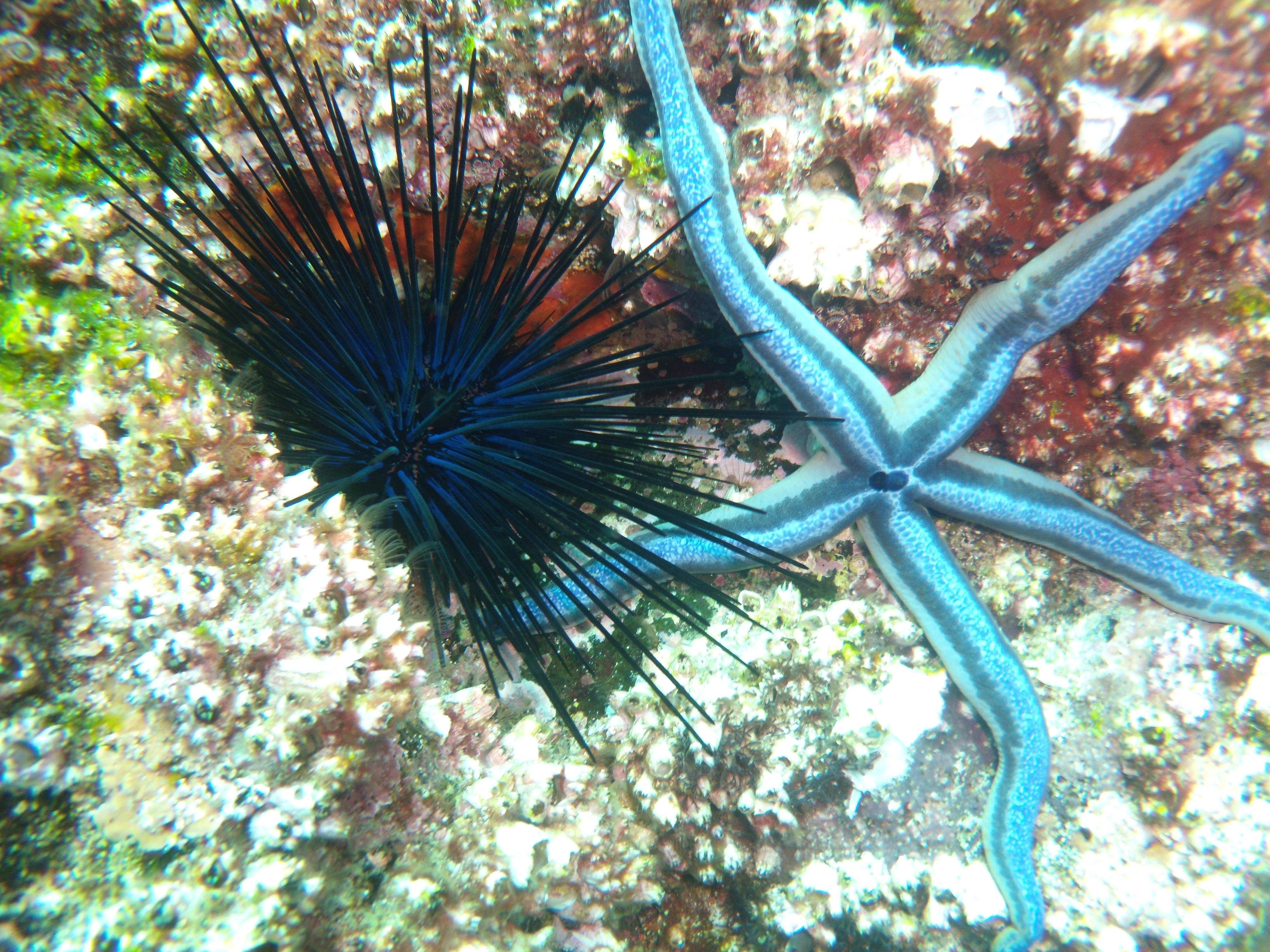 A blue starfish (Phataria unifascialis) and a blue sea urchin (Diadema mexicanum) in Galapagos.